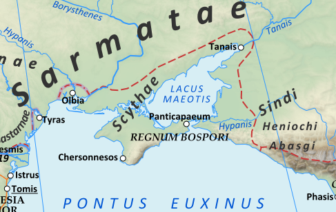 Map of the Roman Empire in 125 during the reign of emperor Hadrian, cropped to show the Scythian-ruled coast of the Black Sea. Projection Lambert azimuthal-equal area. Central latitude: 45° N, central longitude: 20° E. X, Y origin offset - 0 Datum: ETRS89 Sources The physical map was made using the following public domain sources: Topography: NASA Shuttle Radar Topography Mission (SRTM30) data Shoreline, lakes and rivers: derived from Natural Earth data Additional references for the map content: Tacitus, Germania (ca. 100) Ptolemy, Geographia (ca. 140) Atlante storico DeAgostini, Instituto Geografico DeAgostini, 1998. pg. 35-41. Historischer Weltatlas, Dr. Walter Leisering, Marix Verlag, 2011. pg. 26-27 Történelmi világatlasz, Cartographia Kiadó, 2005. pg. 20-21. The Penguin Historical Atlas of Ancient Rome by Christopher Scarre, Penguin Historical Atlases, 1995. pg. 81. Software used GIS: Open JUMP GIS (open source): GRASS GIS (open source): Graphics editors: Inkscape (open source): GIMP (open source)